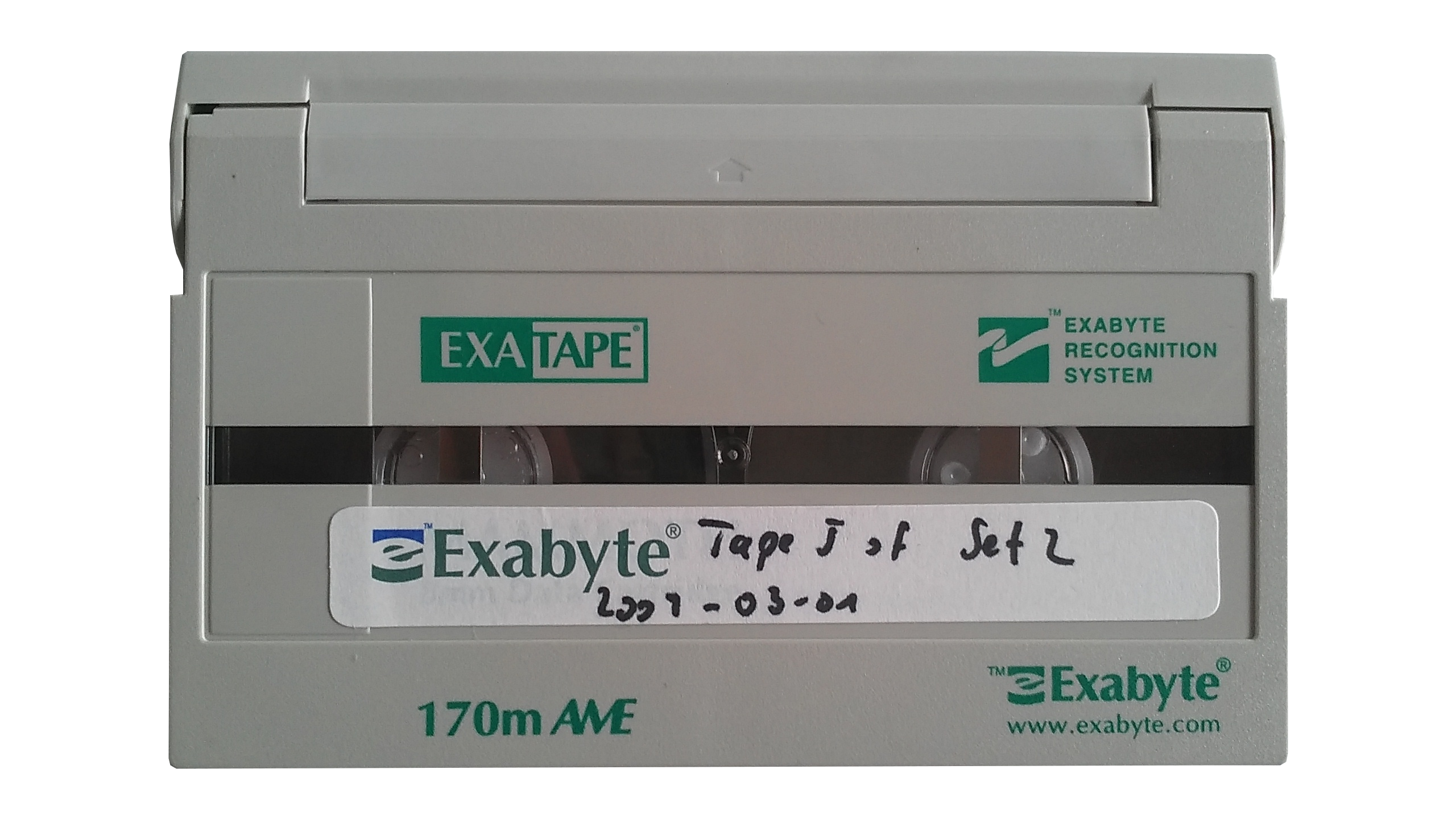 Frontside of a Mammoth-Cartridge for data backups. Producer: Exabyte Corporation.